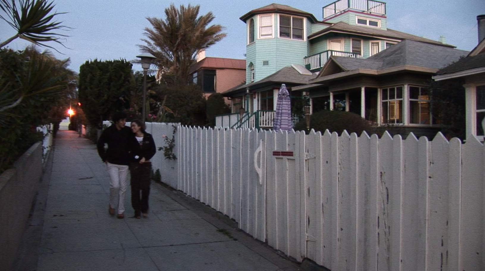 Pedestrian lane, or walk street, in Venice, California, built around 1910. It is a frame from the movie, New Urban Cowboy: Toward a New Pedestrianism